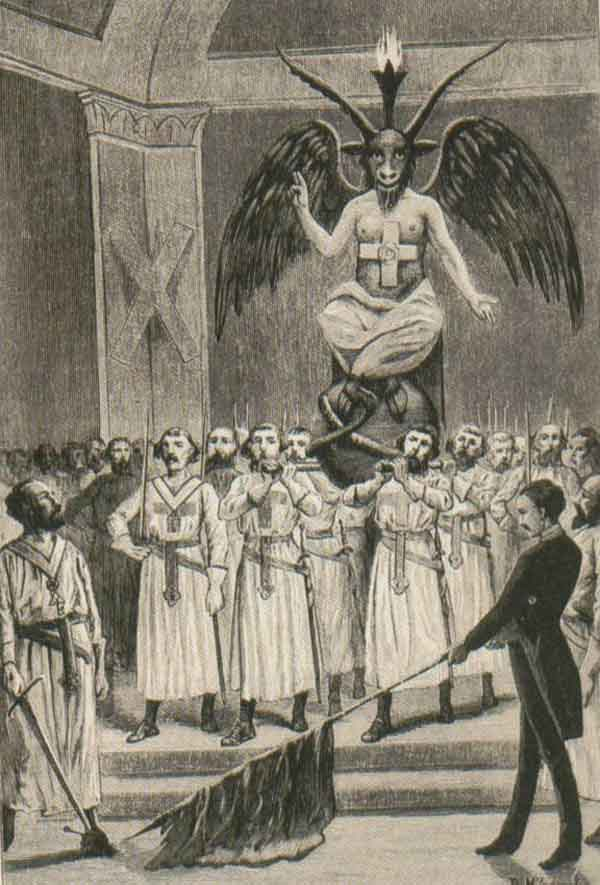 Baphomet at a Freemason session. Picture from a book by Leo Taxil. See Taxil hoax.